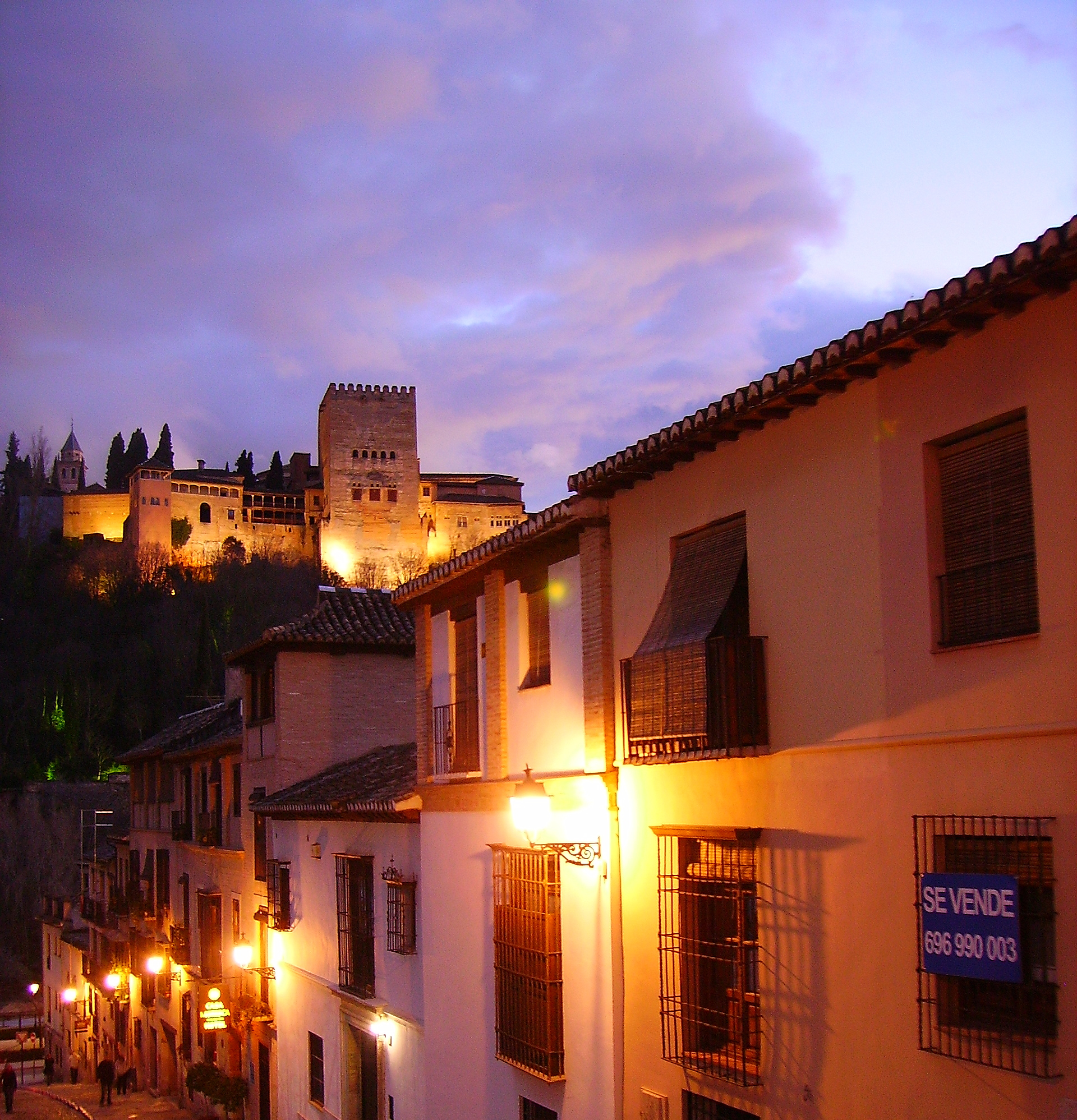 Alhambra at night from Albaicin